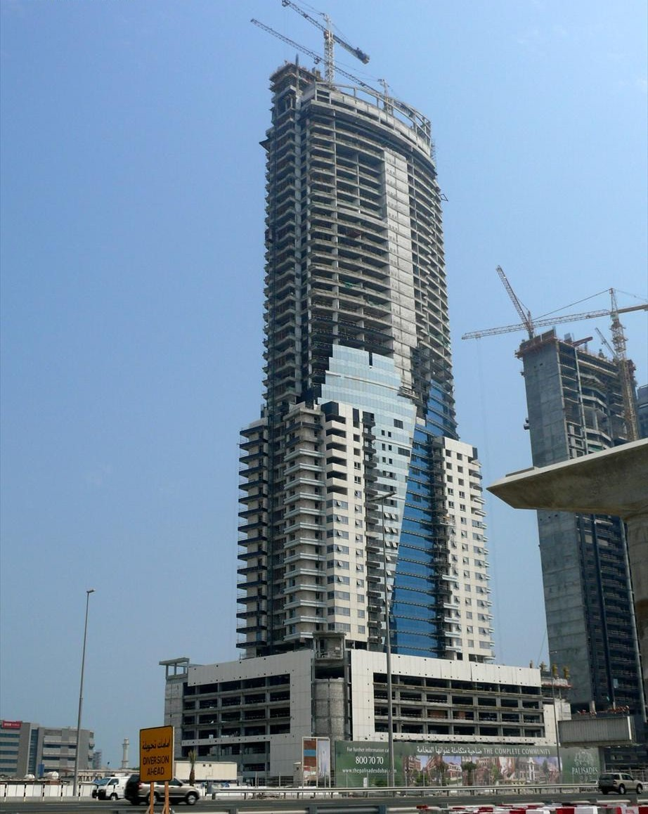 This is a photo showing the construction of Al Salam Tecom Tower, located in Dubai Media City in Dubai, United Arab Emirates, on 4 August 2007.